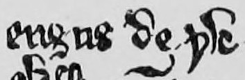 A nineteenth-century facsimile of a letter from Aonghus Óg Mac Domhnaill to Edward I, King of England dating to 1301. I have cropped the facsimile to contain only the name of Aonghus Óg: "Engus de Yle".